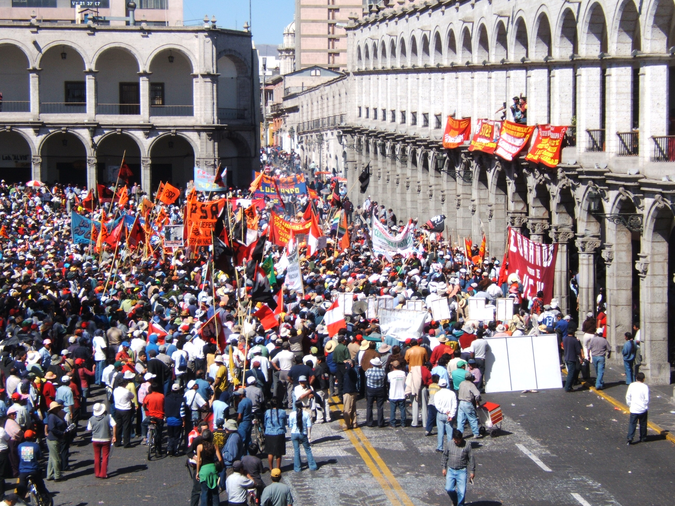 Strikers where assembled in the main square of Arequipa. 16/7/2007